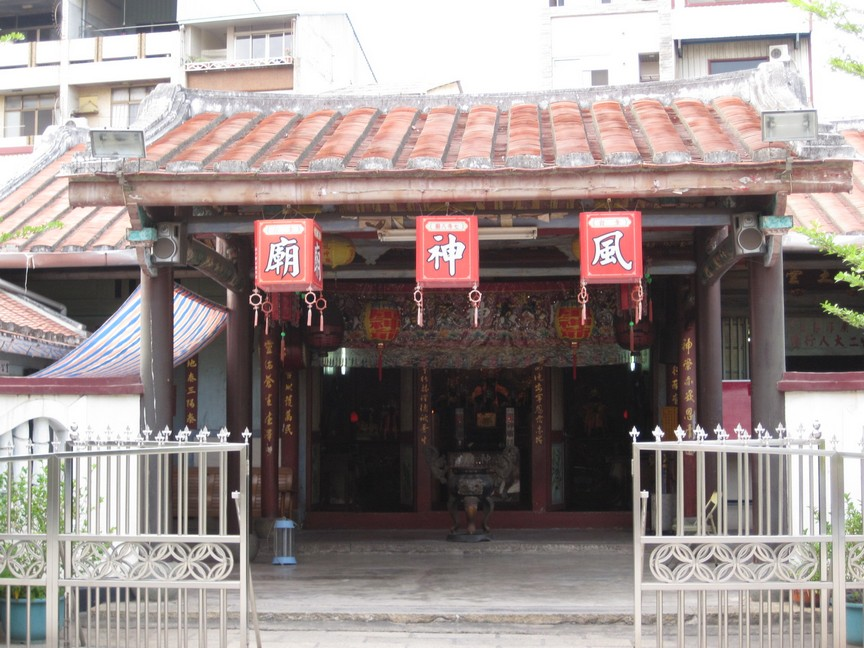 Fongshen Temple in Tainan, Taiwan.